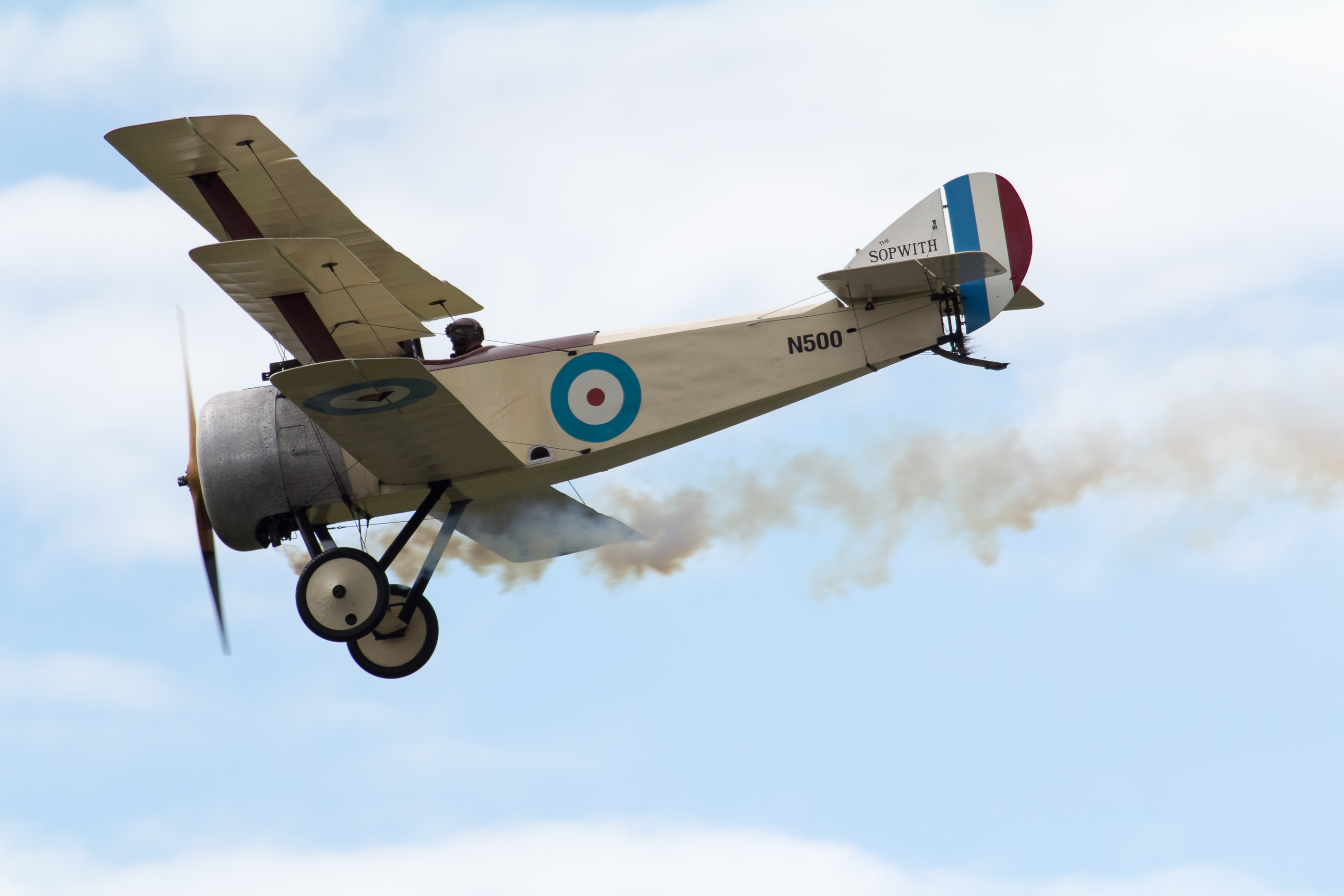 The Great War Display Team's replicate Sopwith Triplane at the 2016 Farnborough Airshow